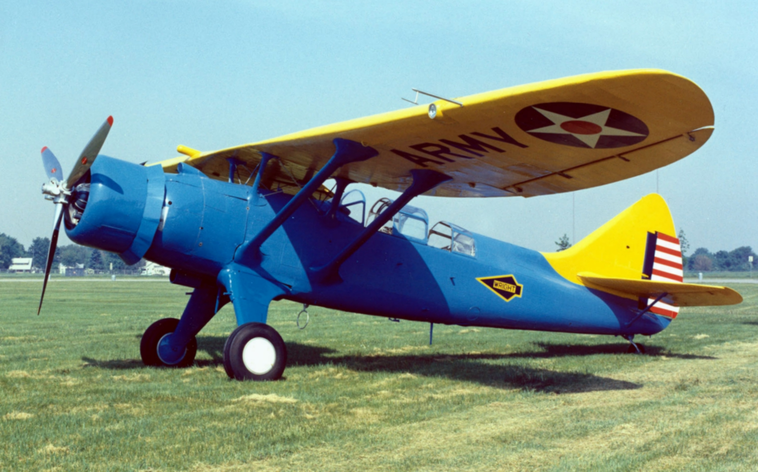 The Douglas O-46A of the National Museum of the United States Air Force at Dayton, Ohio (USA). The aircraft was put in storage in 2007 and transferred to the restoration hangar in 2010.